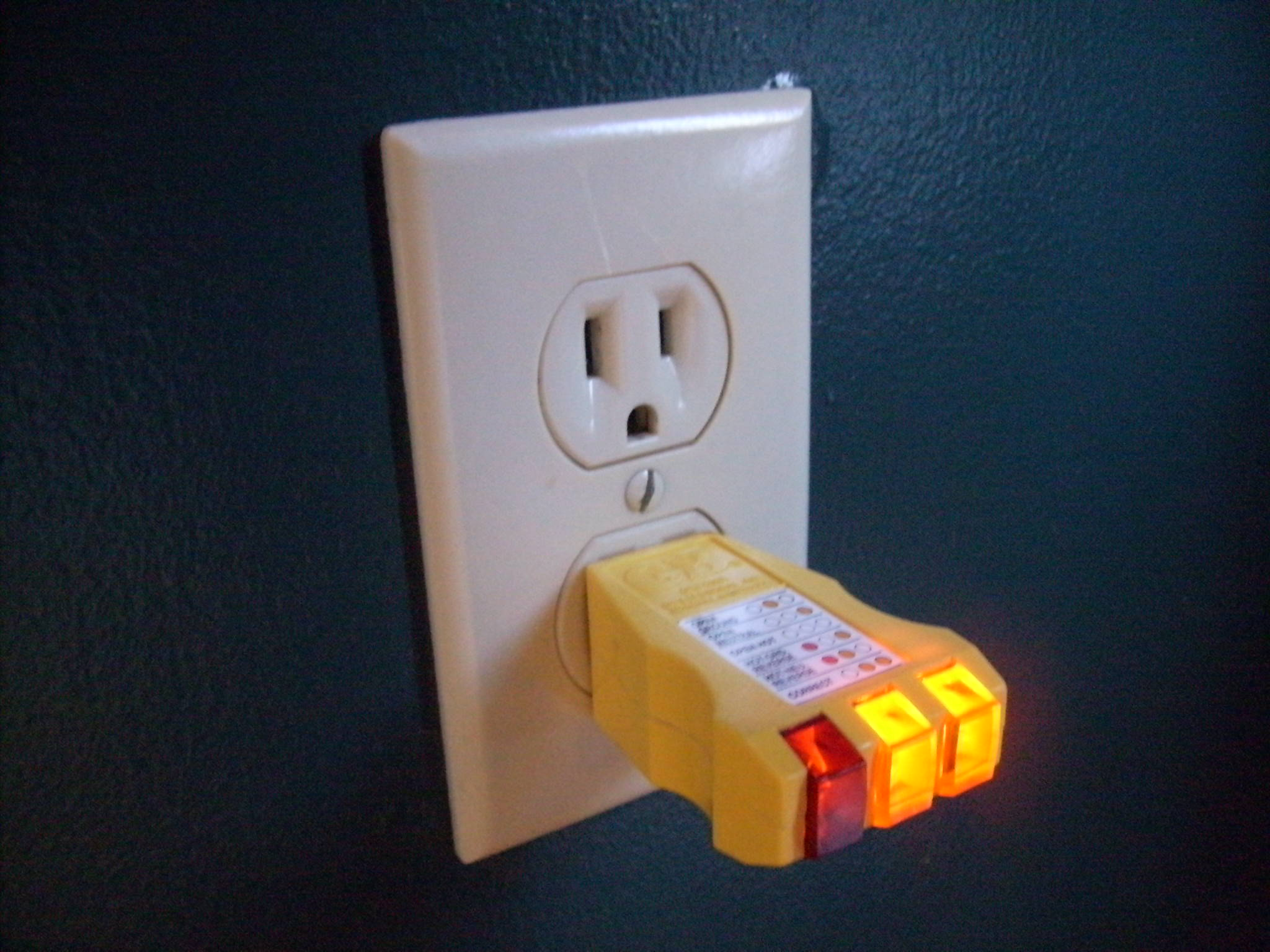 A picture demonstrating the use of a receptacle tester to verify that an outlet is properly wired.